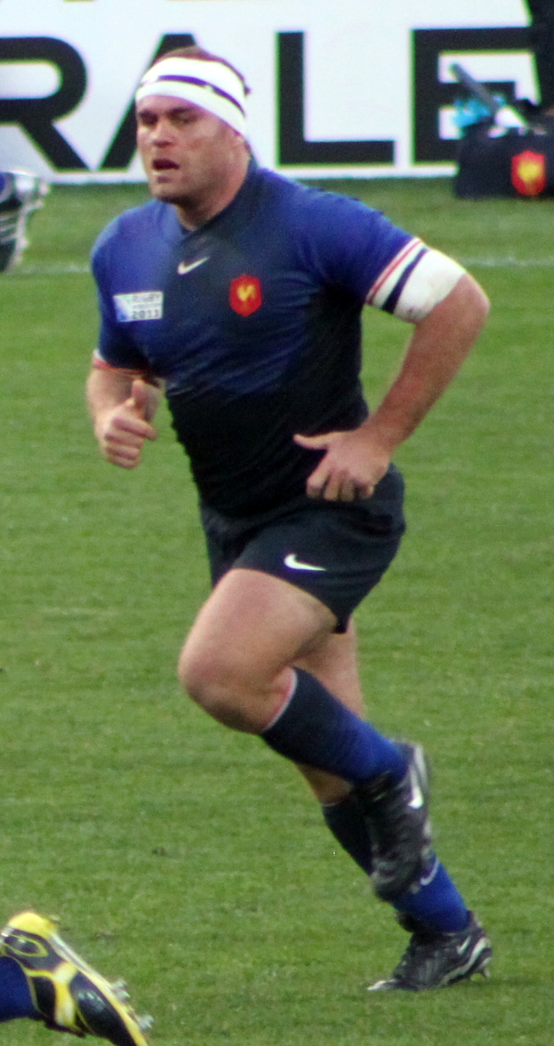 French rugby union player Jean-Baptiste Poux during 2011 Rugby World Cup match against Tonga.